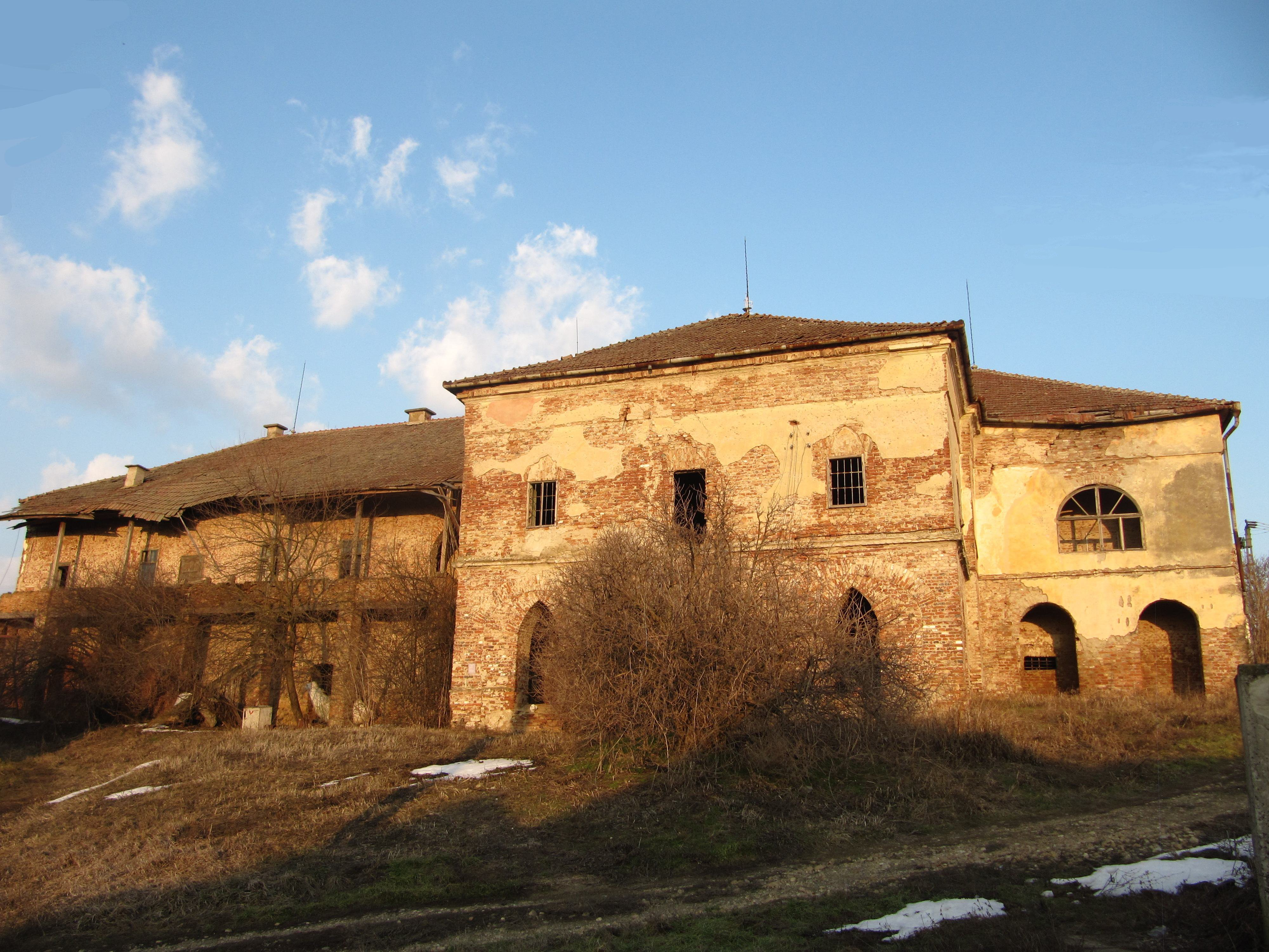 Castle Mercy in Carani